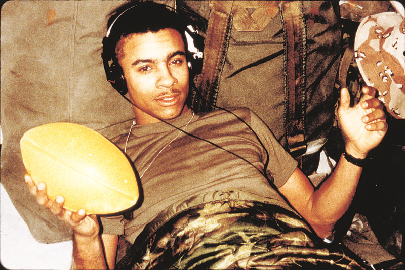 Reggae singer Shaggy, during his military service as a U.S. Marine.